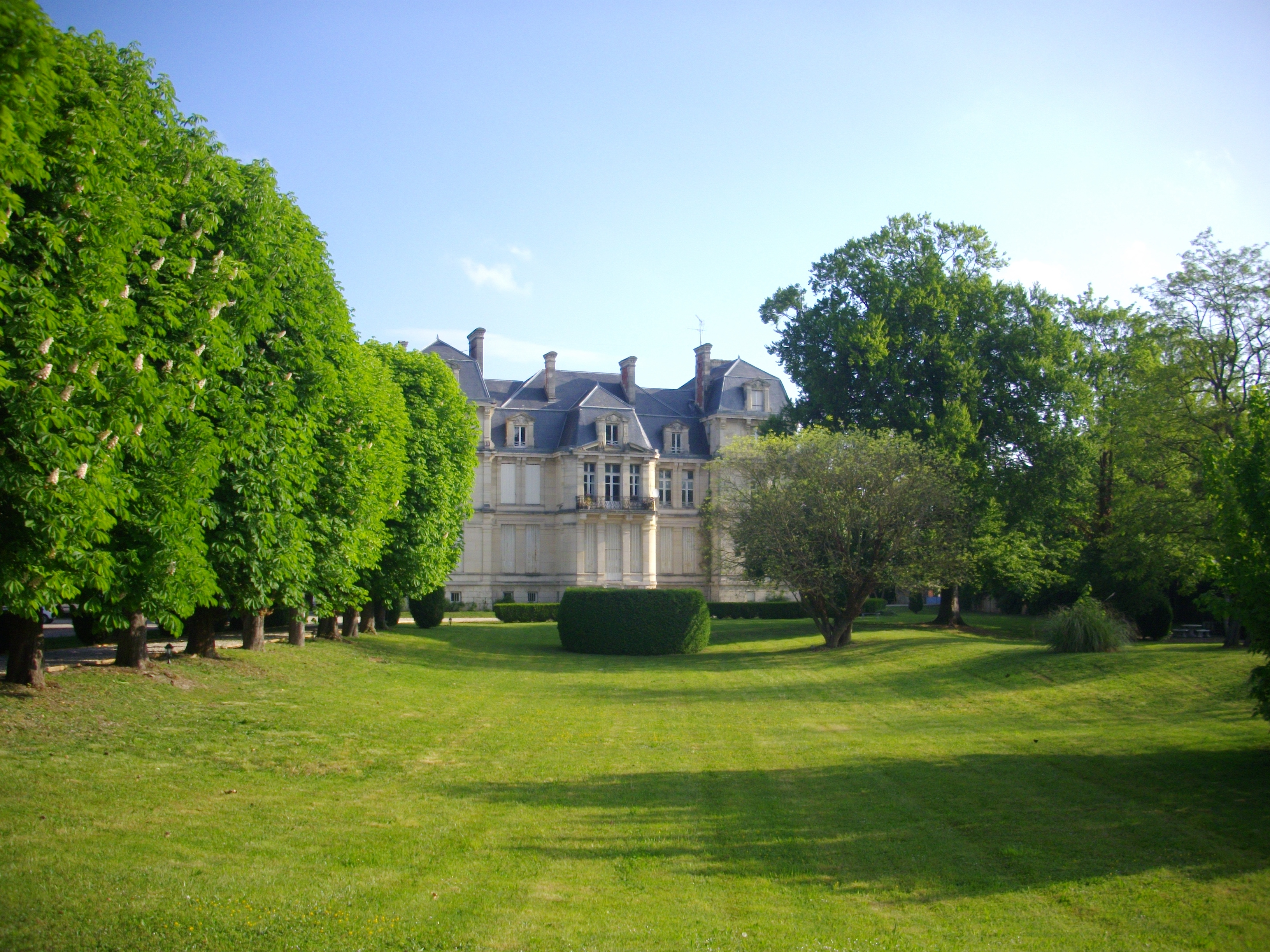 Jacquesson castle in Châlons-en-Champagne (Marne, France) .